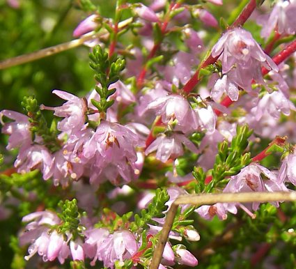 Calluna vulgaris, Krkonoše, Czech Republic, June, 2008